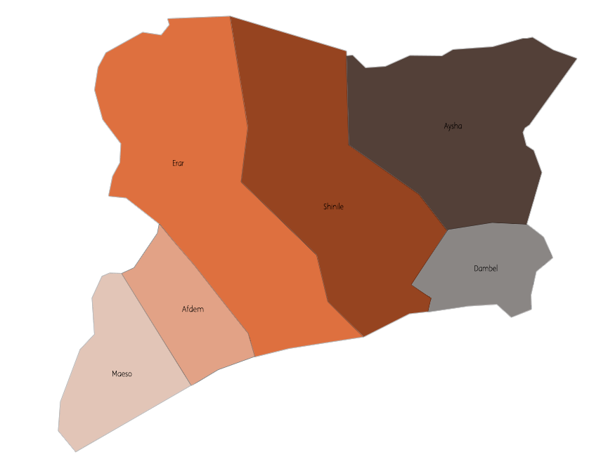 The Siti Zone of the Somali region of Ethiopia.